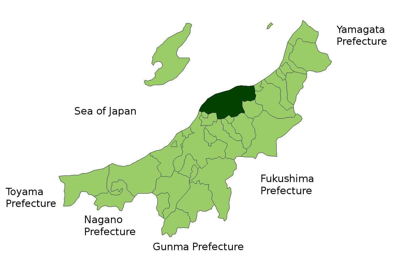 Location Map of Niigata in Niigata Prefecture, Japan